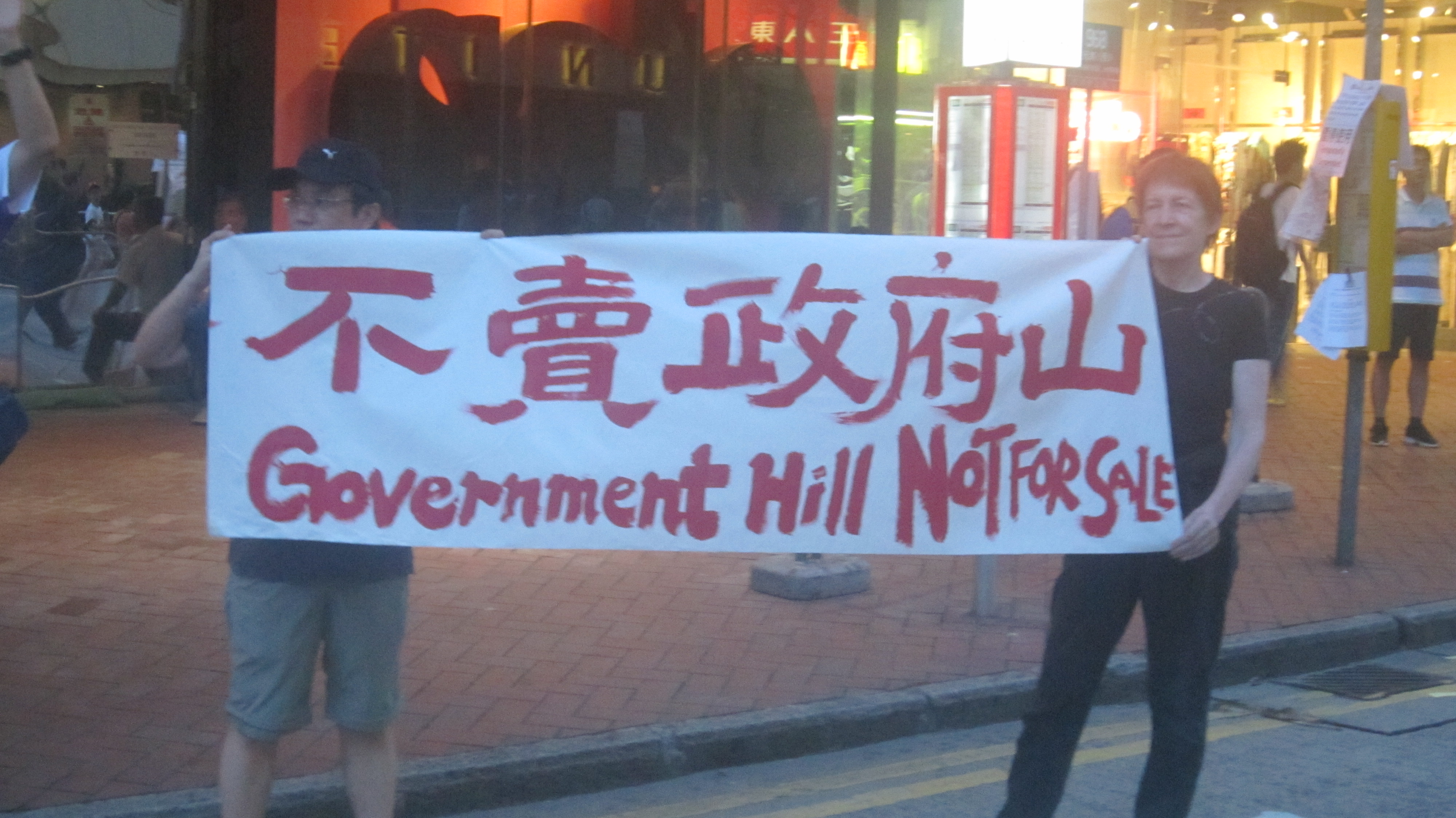 Government Hill conservation controversy